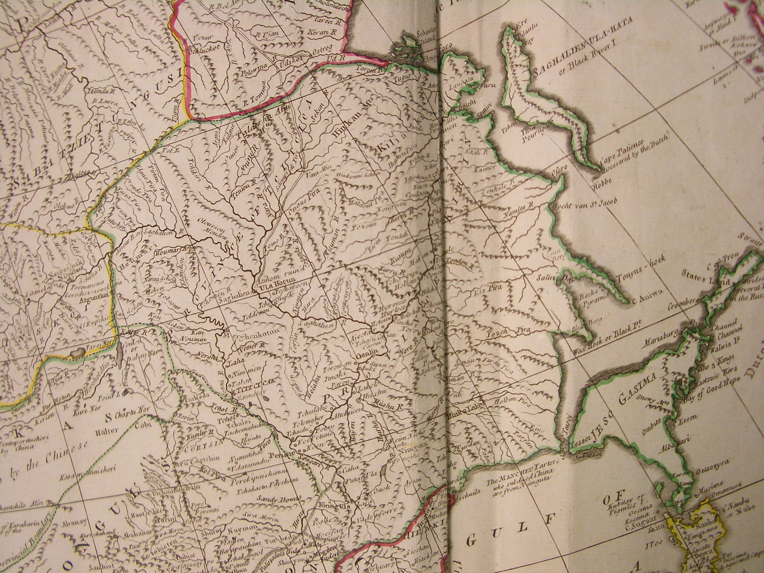 A fragment of the map of Asia (pages 22-23: "Asia, according to Mr. d'Anville, with the latest Discoveries made by the Russians, the Dutch, and the English") in Thomas Kithen's "Atlas describing the Whole Universe"